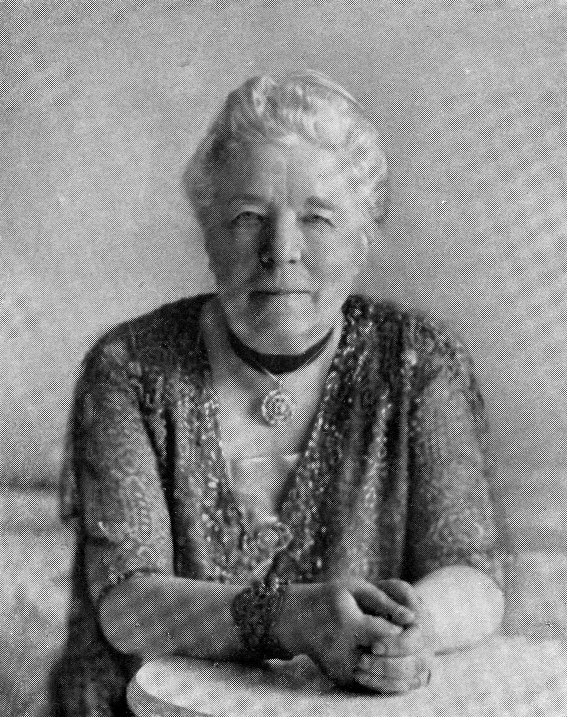 Selma Lagerlöf on her 70th birthday 1928